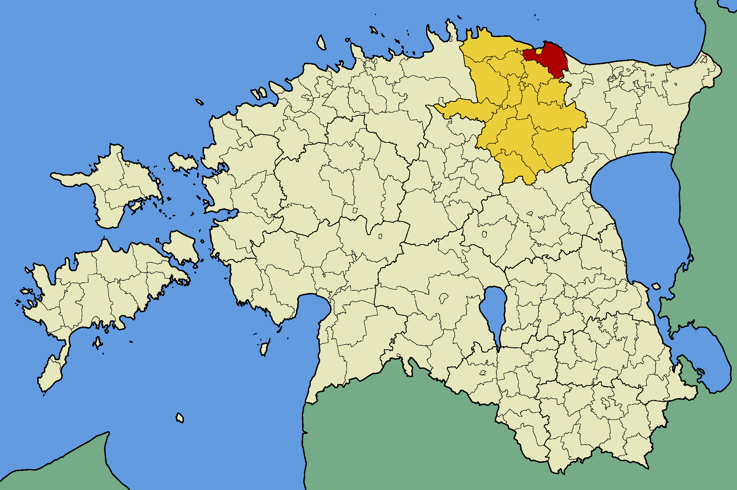 Map of Estonia with borders of municipalities (parishes). Lääne-Viru county and Viru-Nigula municipality emphasized.